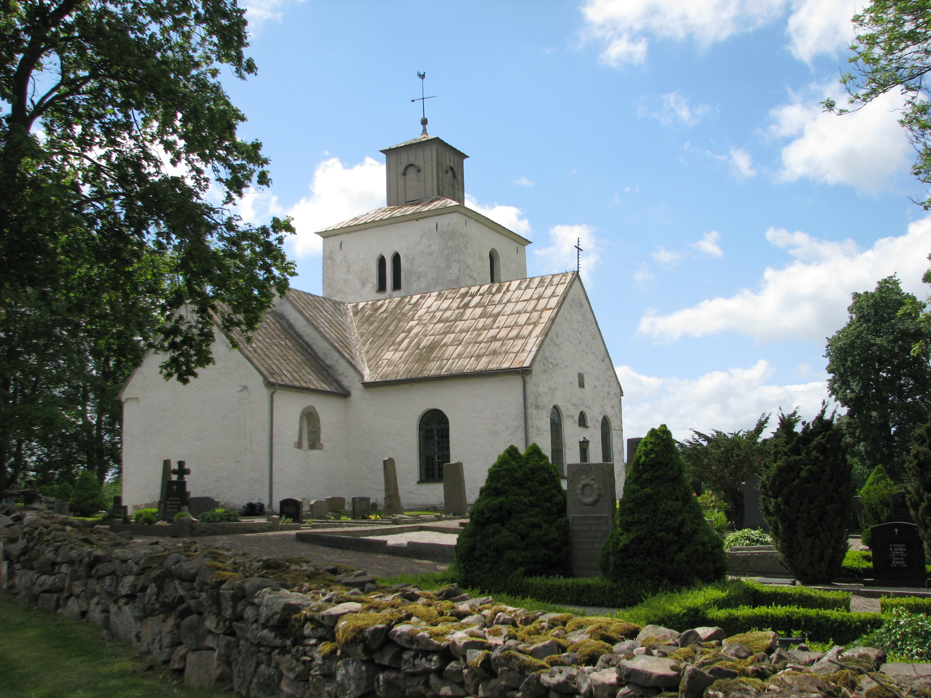 Hallaröds church